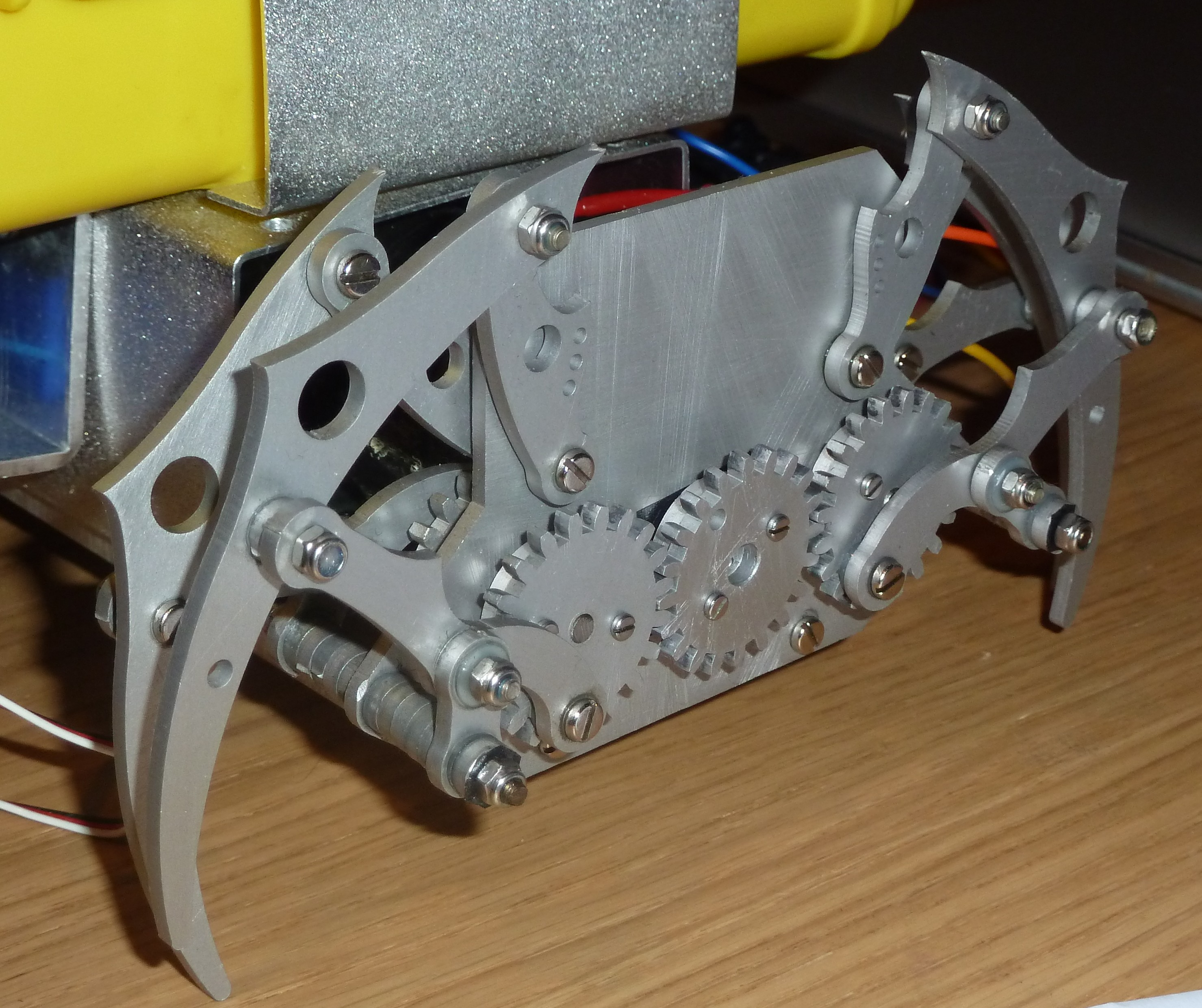 MechaLobster, an underwater walking robot using Klann linkage legs and a moving bristle sensor. Artificial active whiskers for guiding underwater autonomous walking robots (CLAWAR 2011)[1], Paris, France, 2011